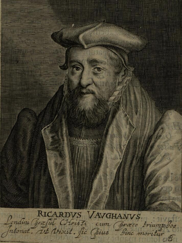 A portrait from the Welsh Portrait Collection at the National Library of Wales. Depicted person: Richard Vaughan – Welsh bishop of the Church of England